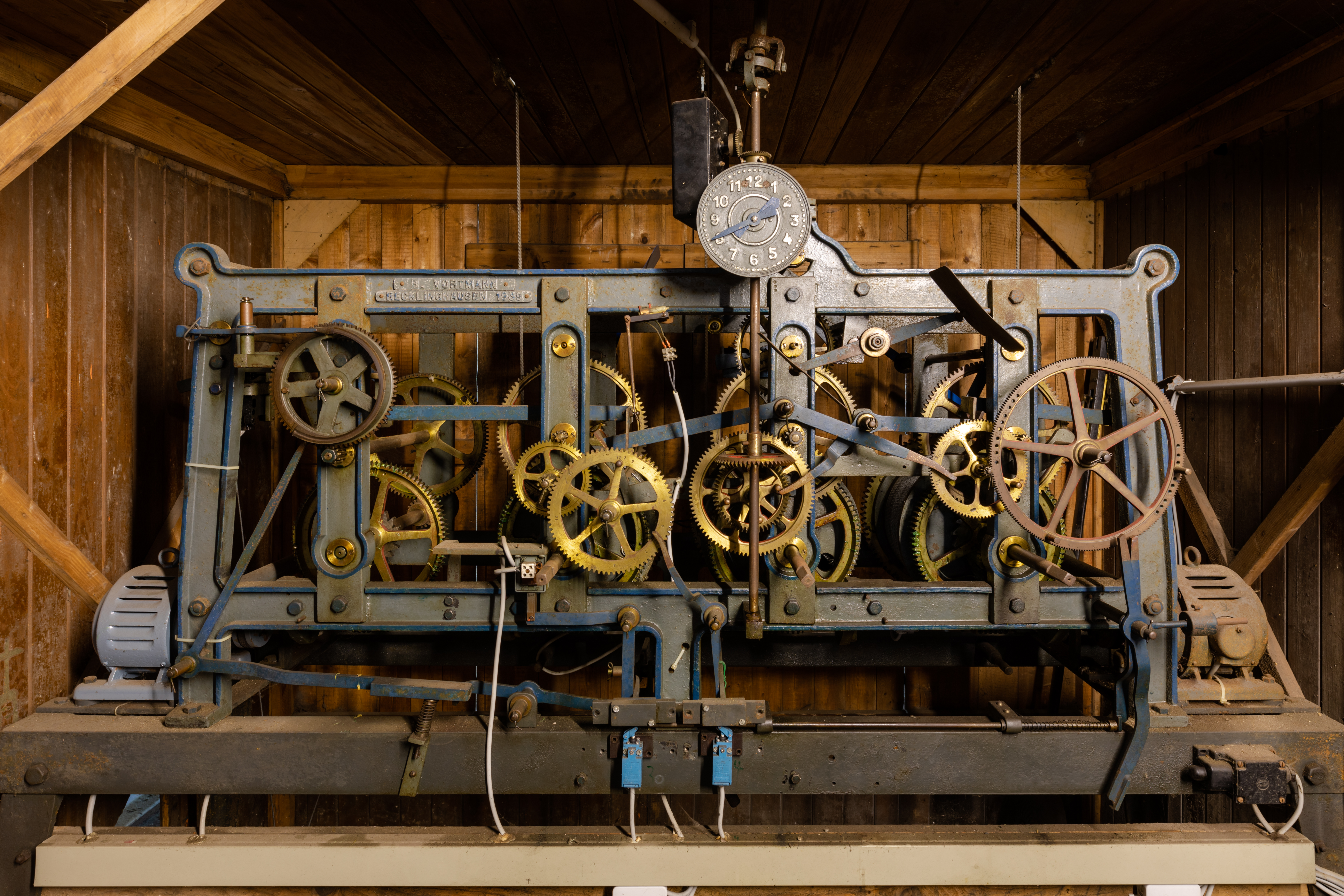 Clockwork of the Holy Cross Church in Dülmen, North Rhine-Westphalia, Germany This image shows a heritage building in Germany, located in the North Rhine-Westphalian city Dülmen (no. 16).